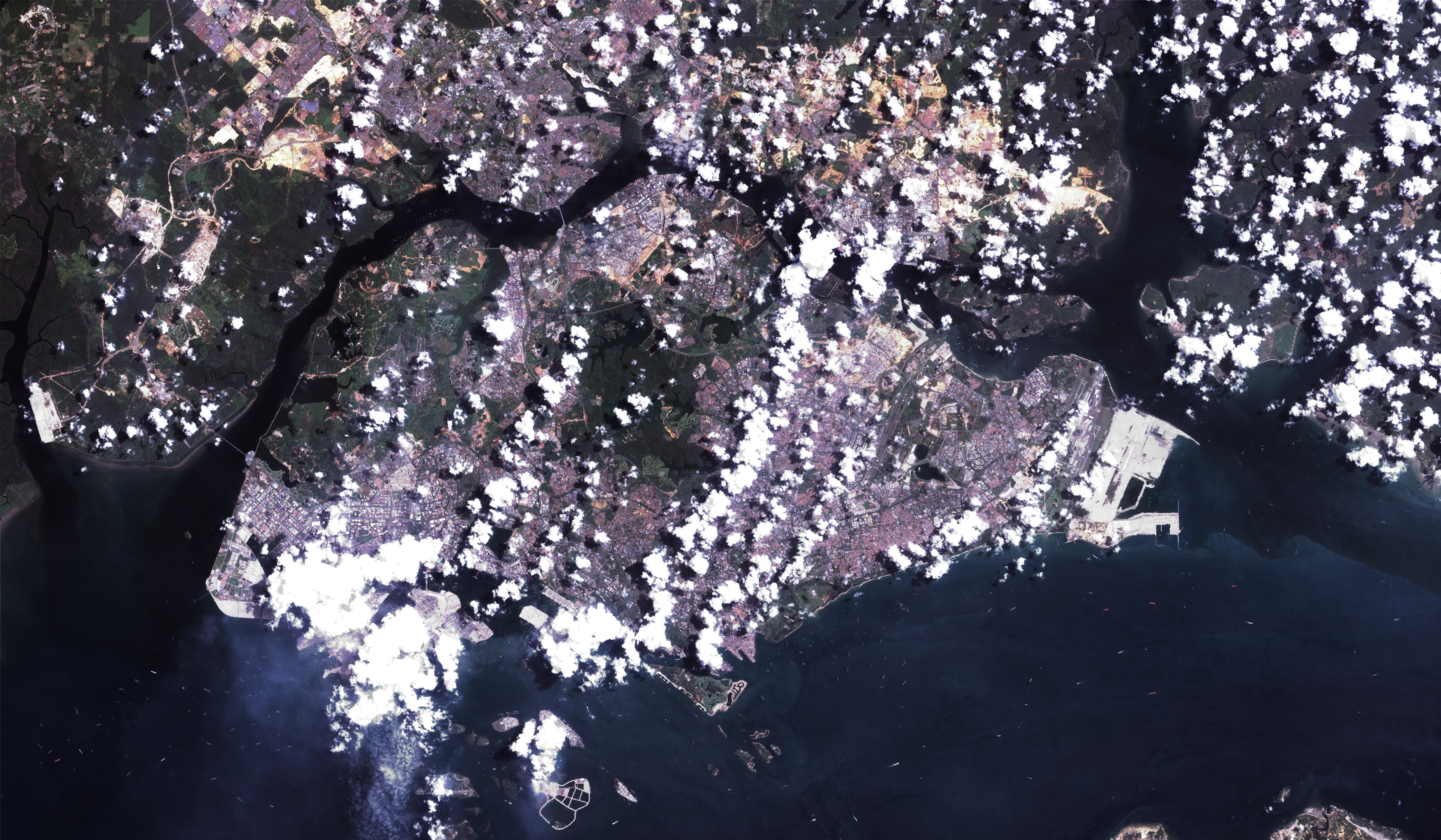 A Landsat 7 image of Singapore at 14.25-meter resolution. Based on Global Orthorectified Landsat dataset (ETM+); WRS_PATH 125, WRS_ROW 59. Generated using panchromatic band for intensity, and color from "true-color" combination of 28.5-meter resolution bands 3, 2, and 1 (as R, G, B respectively). Data combined and color curves enhanced in the Gimp.